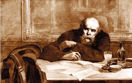 Paul Verlaine au café Procope peint par Césare Bacchi en 1938